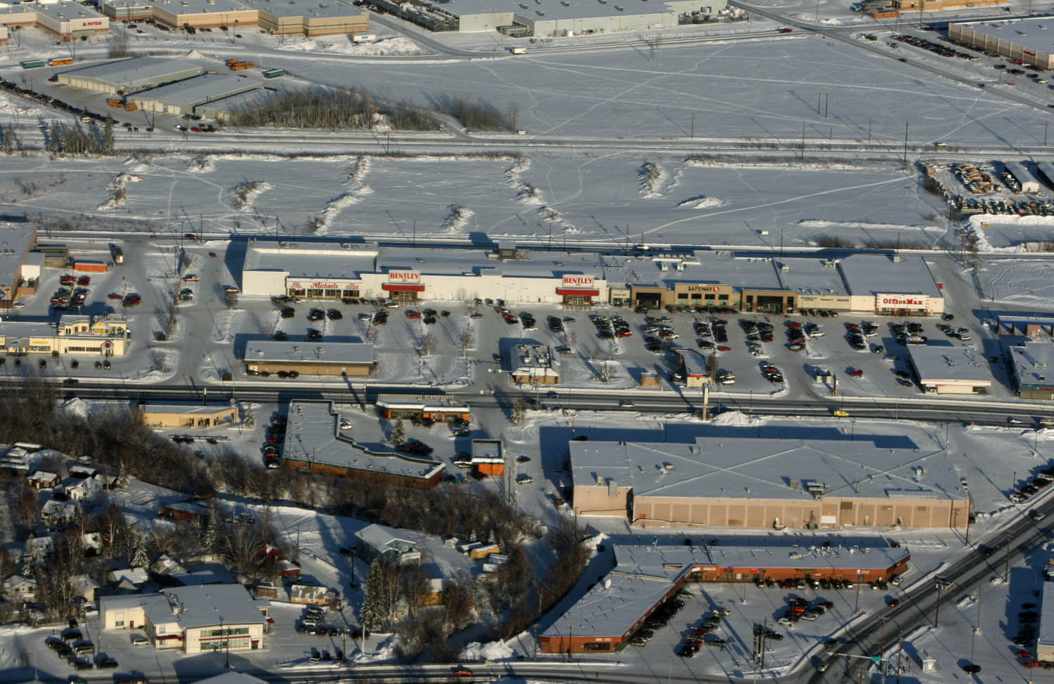 Aerial photograph of Bentley Mall, taken while flying into Fairbanks, Alaska on Alaska Airlines.